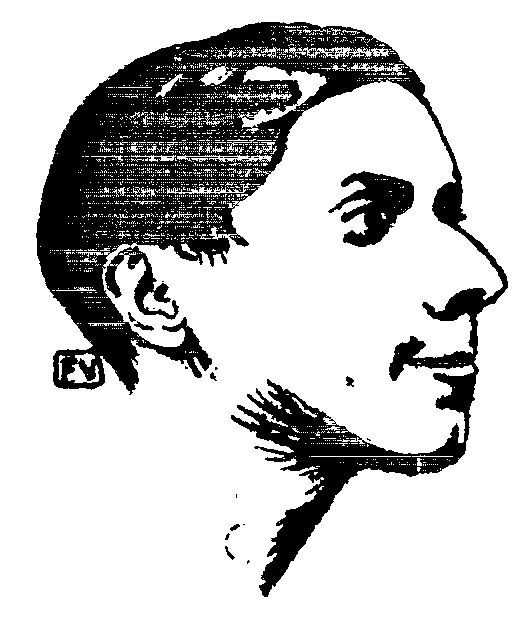 Portuguese writer and poet Eugénio de Castro (1869-1844) by Félix Valloton (1865-1925)